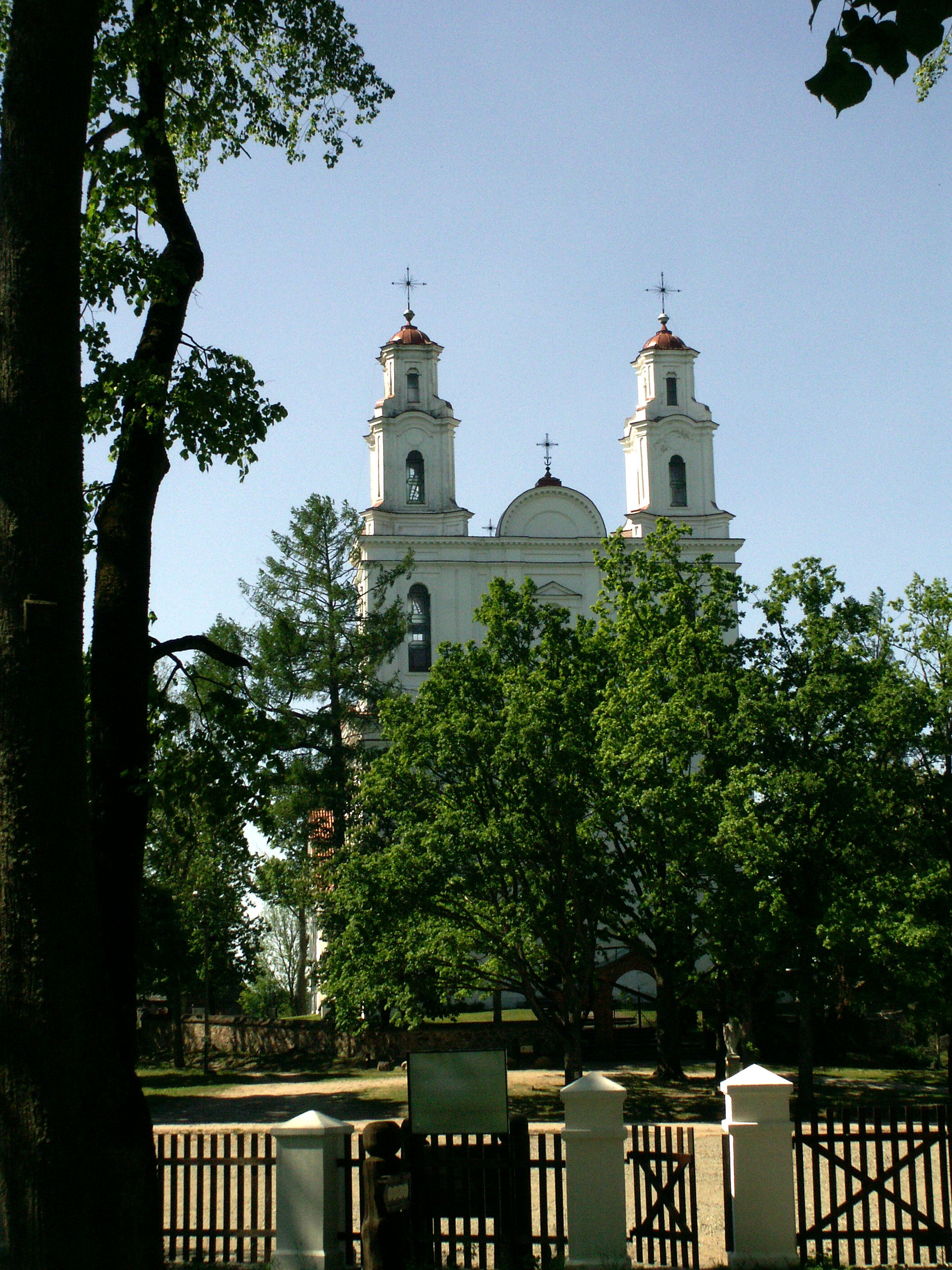 Kurtuvėnai churche, Šiauliai district, Lithuania